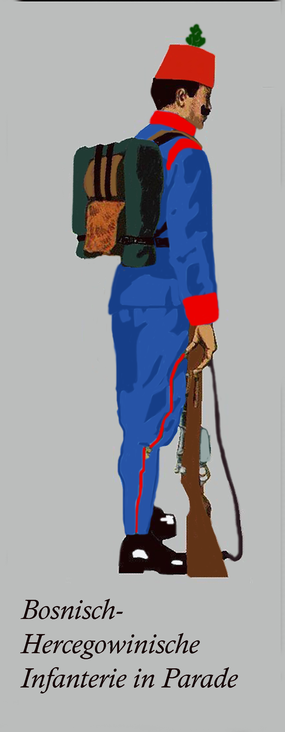 Soldier of the k.u.k. Bosnian-Hercegovian Infantry in paradedress